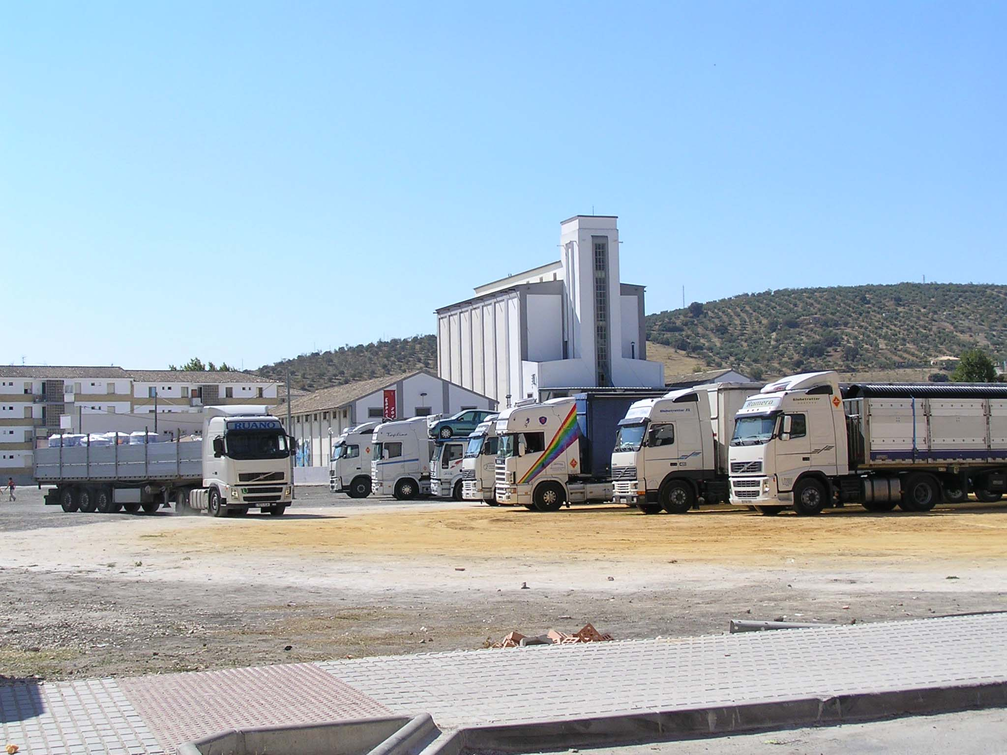 Trucks in Spain. Most Volvos, some Scanias and one not recognized car transporter, possibly an Iveco